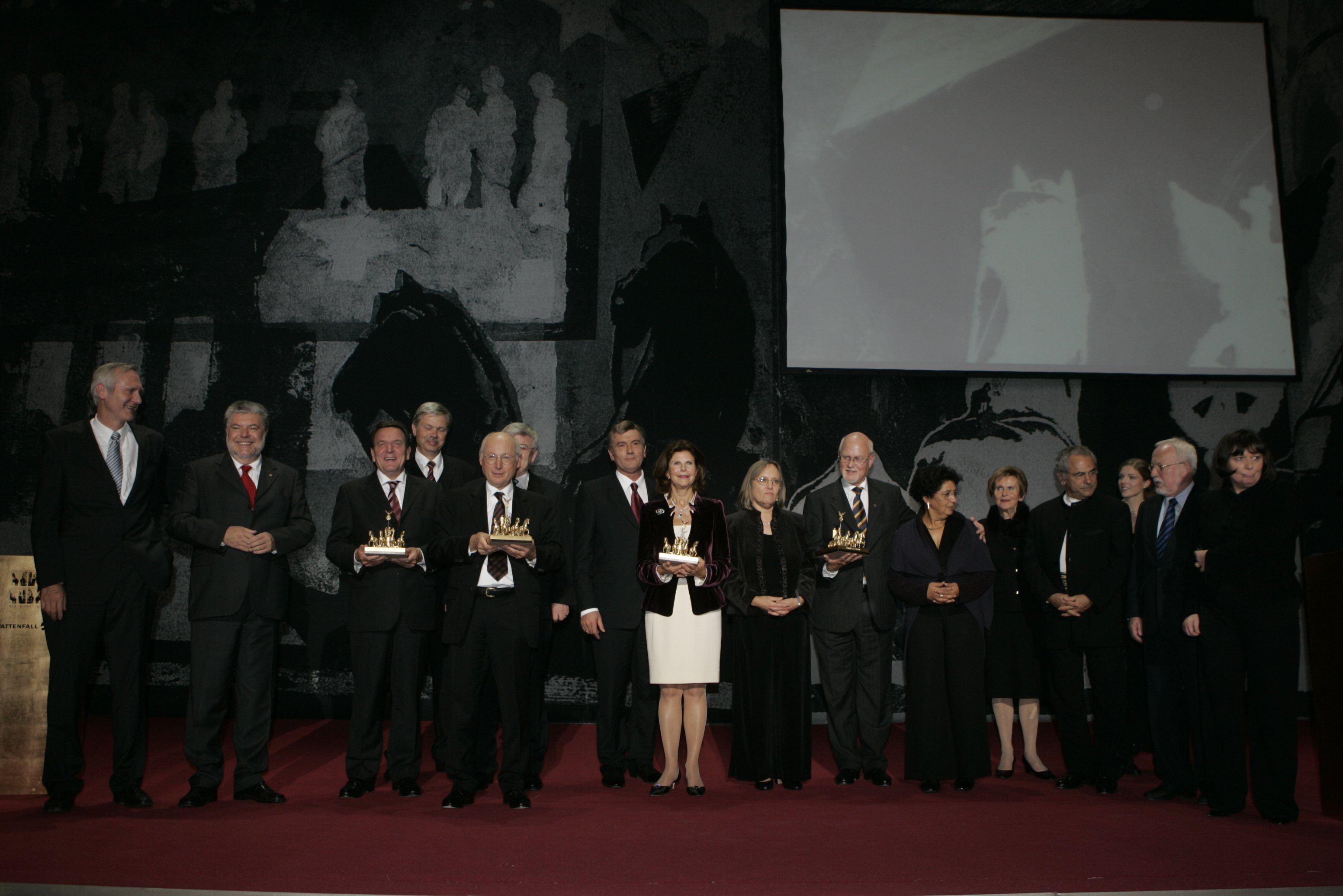 Group photo of 2007 Quadriga award recipients.